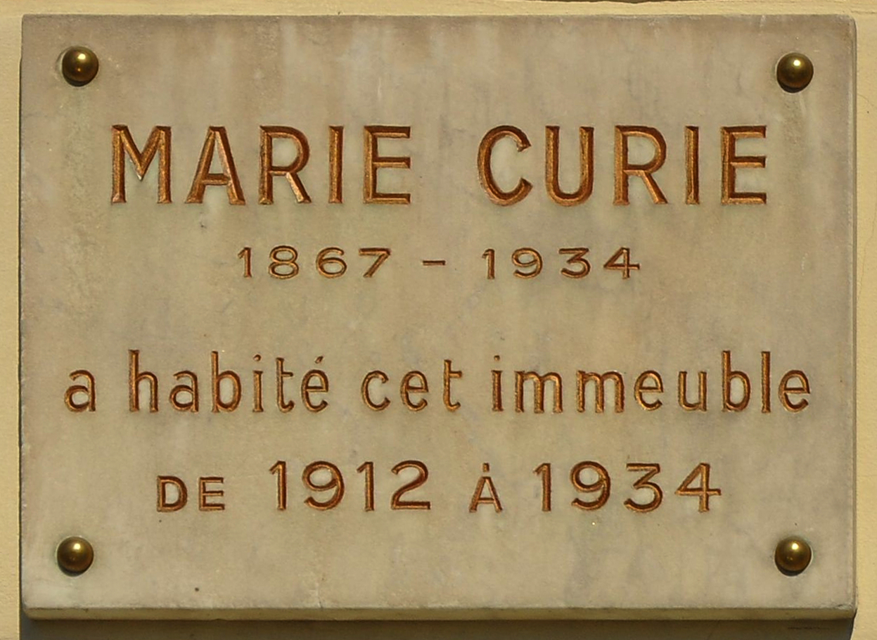 Plaque Marie Curie at 36 Quai de Béthune in 4th district of Paris, France. Marie Curie was lived in this house since 1912 to 1934